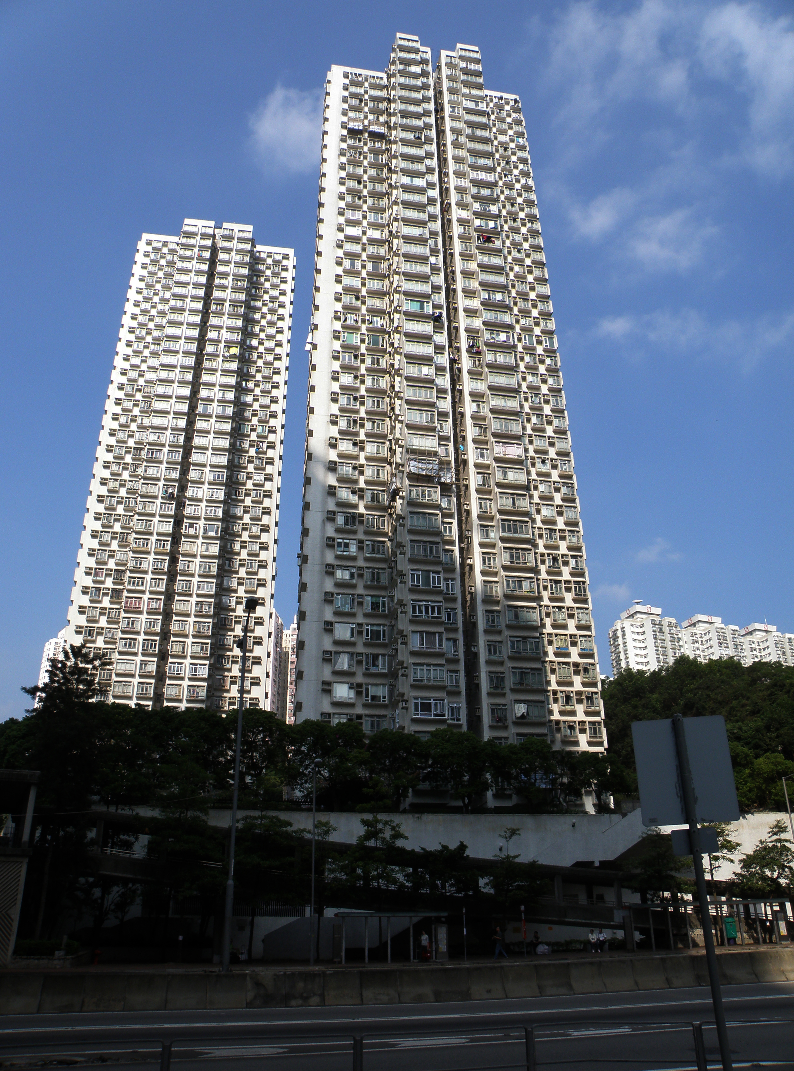 Kam Fung Garden in Tsuen Wan, Hong Kong.